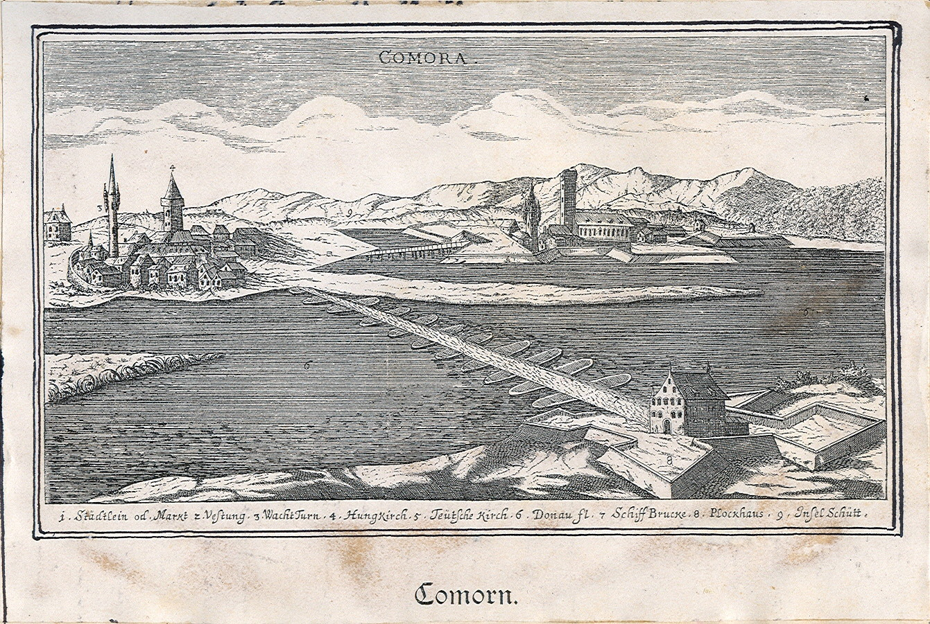 View of Comorn ( 17th century ). Reproduction ( ca.1890 ) of an old view.